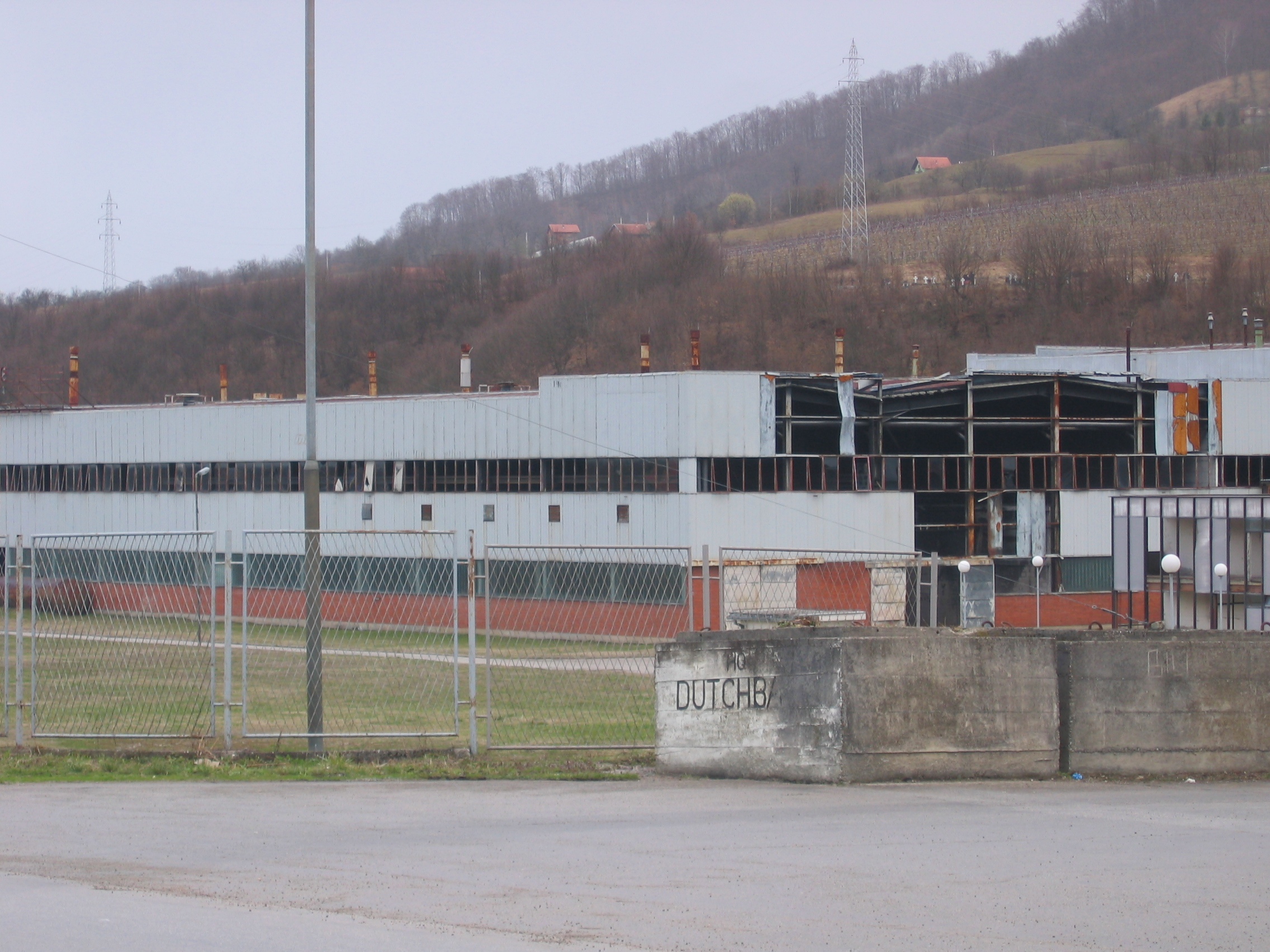 Compound of the former Dutch battalion ("Dutchbat") headquarters near Srebrenica/Potočari in Bosnia and Herzegovina on abandoned industrial premises.